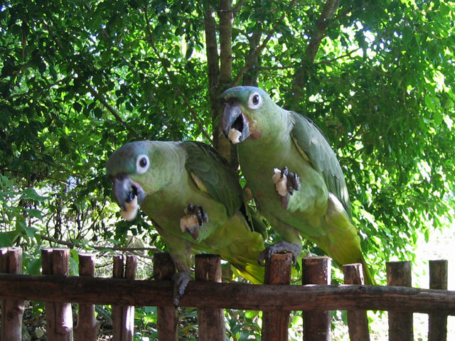 Mealy Amazons eating banana in Guatemala. This subspecies is also called Blue-crowned Mealy Amazon or the Guatemalan Amazon.